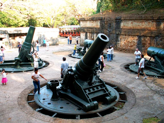 Battery Way Area.